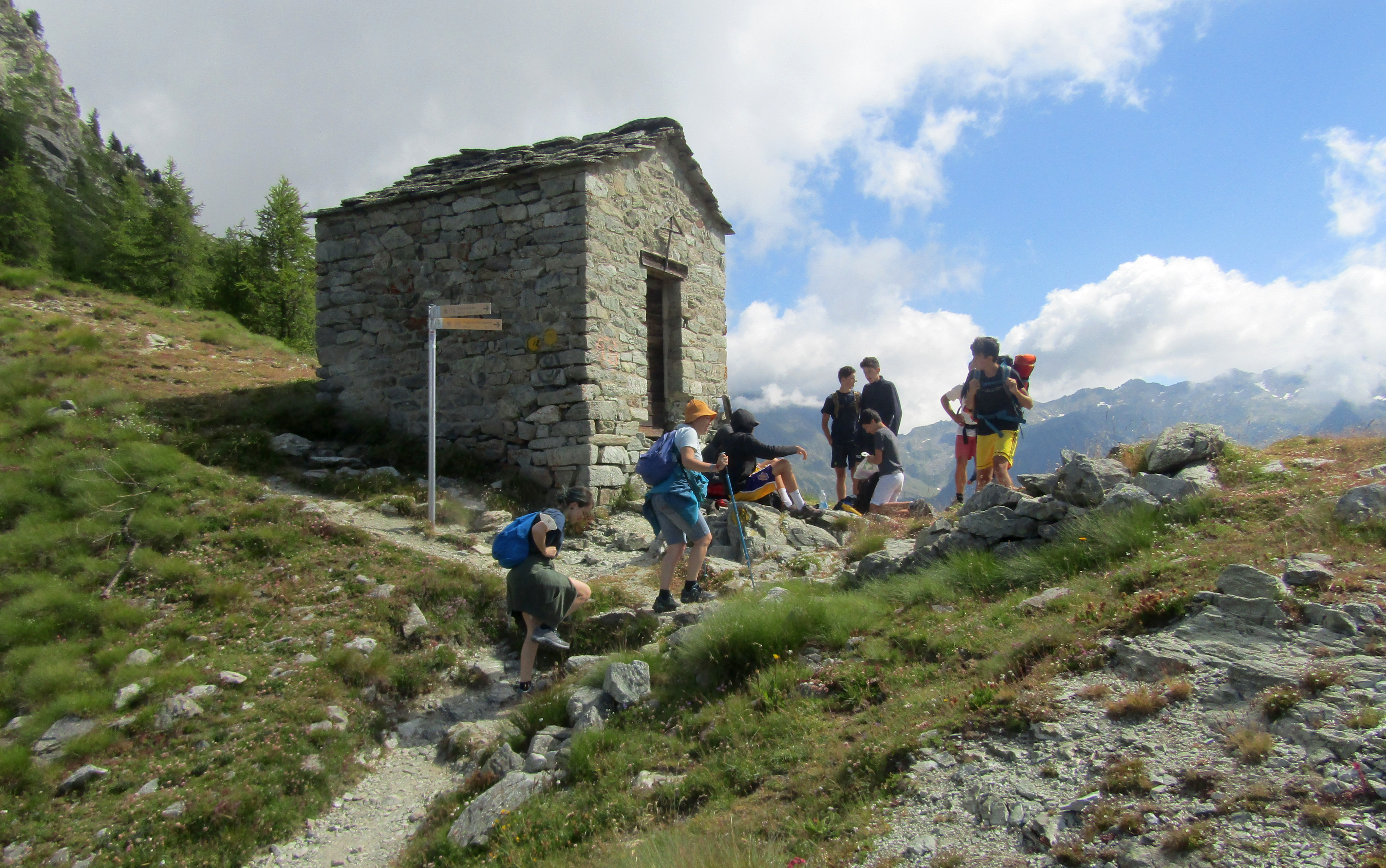 Colle Ranzola (Pennine Alps, Italy)